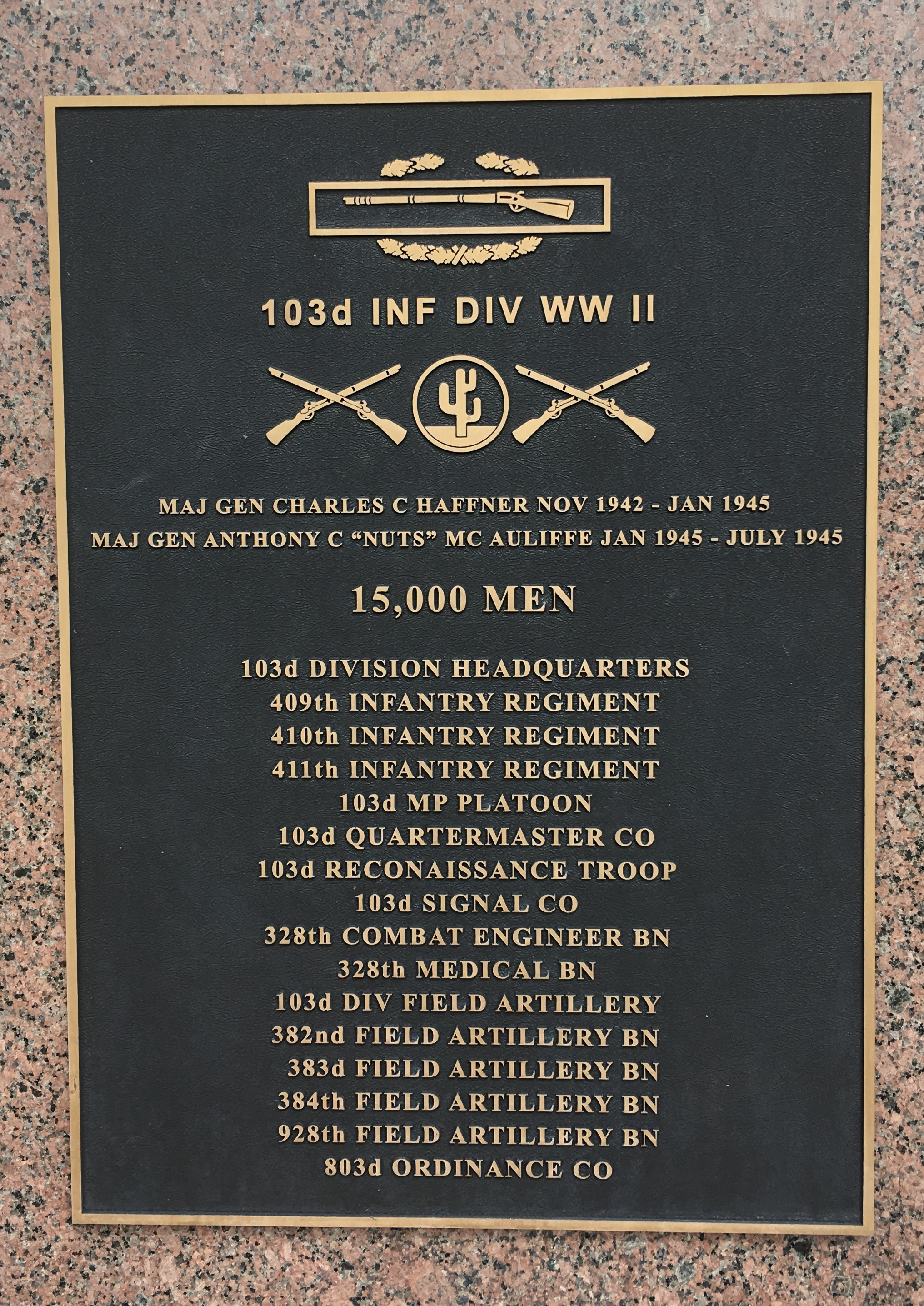 Plaque from a monument commemorating the US Army 103rd Infantry Division, listing the units that made up the 103rd